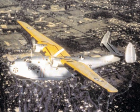 A U.S. Navy Martin PBM-1 Mariner of patrol squadron VP-56 in colourful pre-war markings, 1940.